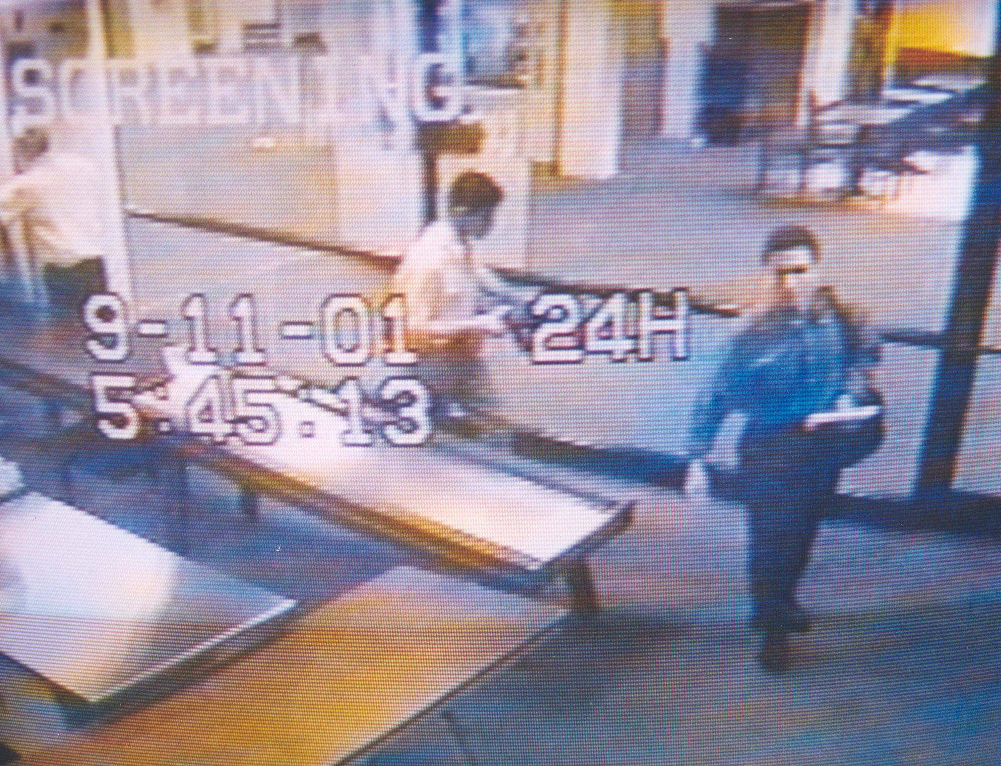 Hijackers Mohamed Atta and Abdulaziz al-Omari passing through security checkpoint at Portland International Jetport on the morning of September 11, 2001.